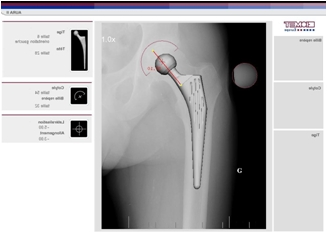 CAD assisted planing for Total Hip Arthroplasty